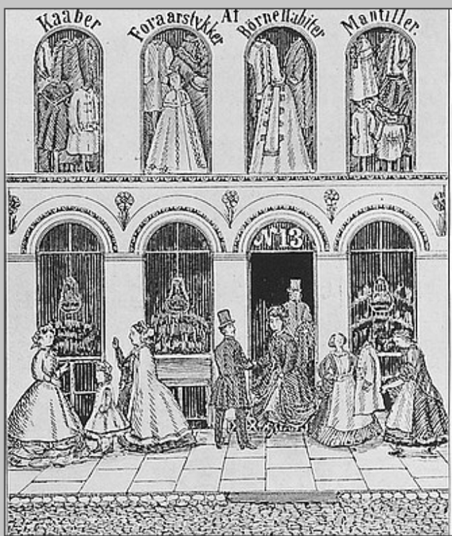 Moresco's fasion store at Amagertorv 13 in Copenhagen, Denmark